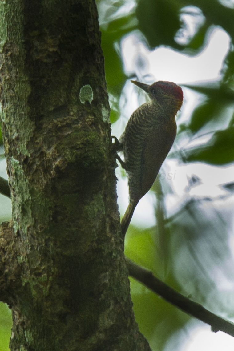 Red-rumped woodpecker (Veniliornis kirkii) - Ecuador_S4E7868